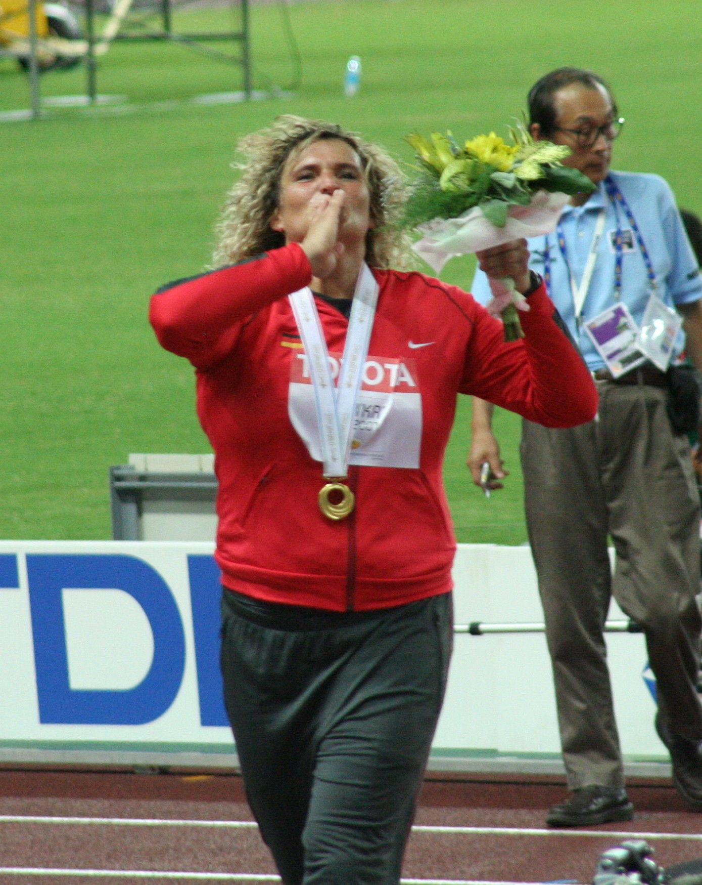 World Athletics Championships 2007 in Osaka - women's discus throw winner Franka Dietzsch after the victory ceremony